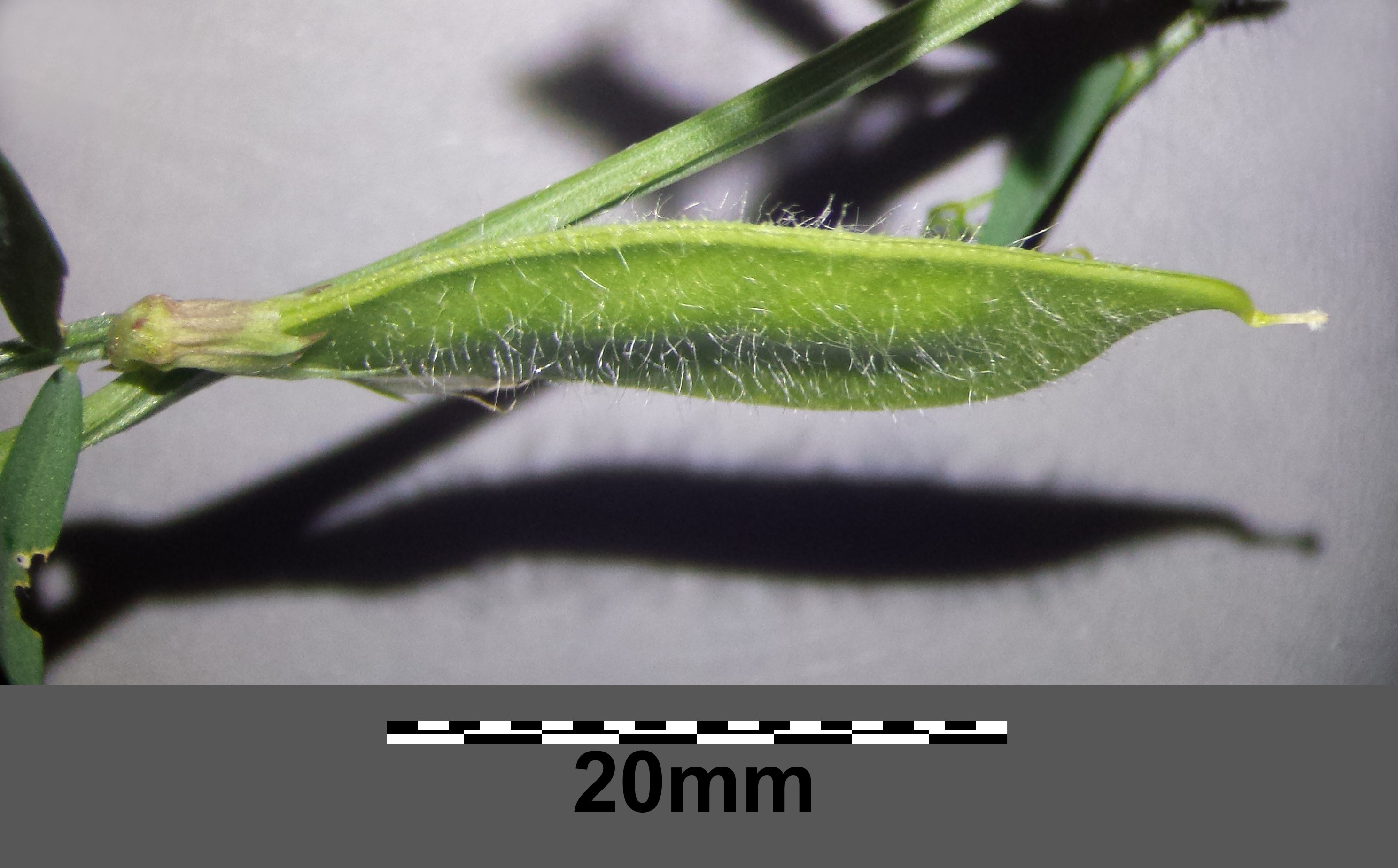 Pod Taxonym: Vicia lutea ss Fischer et al. EfÖLS 2008 ISBN 978-3-85474-187-9 Location: Korneuburg rail station, district Korneuburg, Lower Austria - ca. 170 m a.s.l. Habitat: ruderal meadows